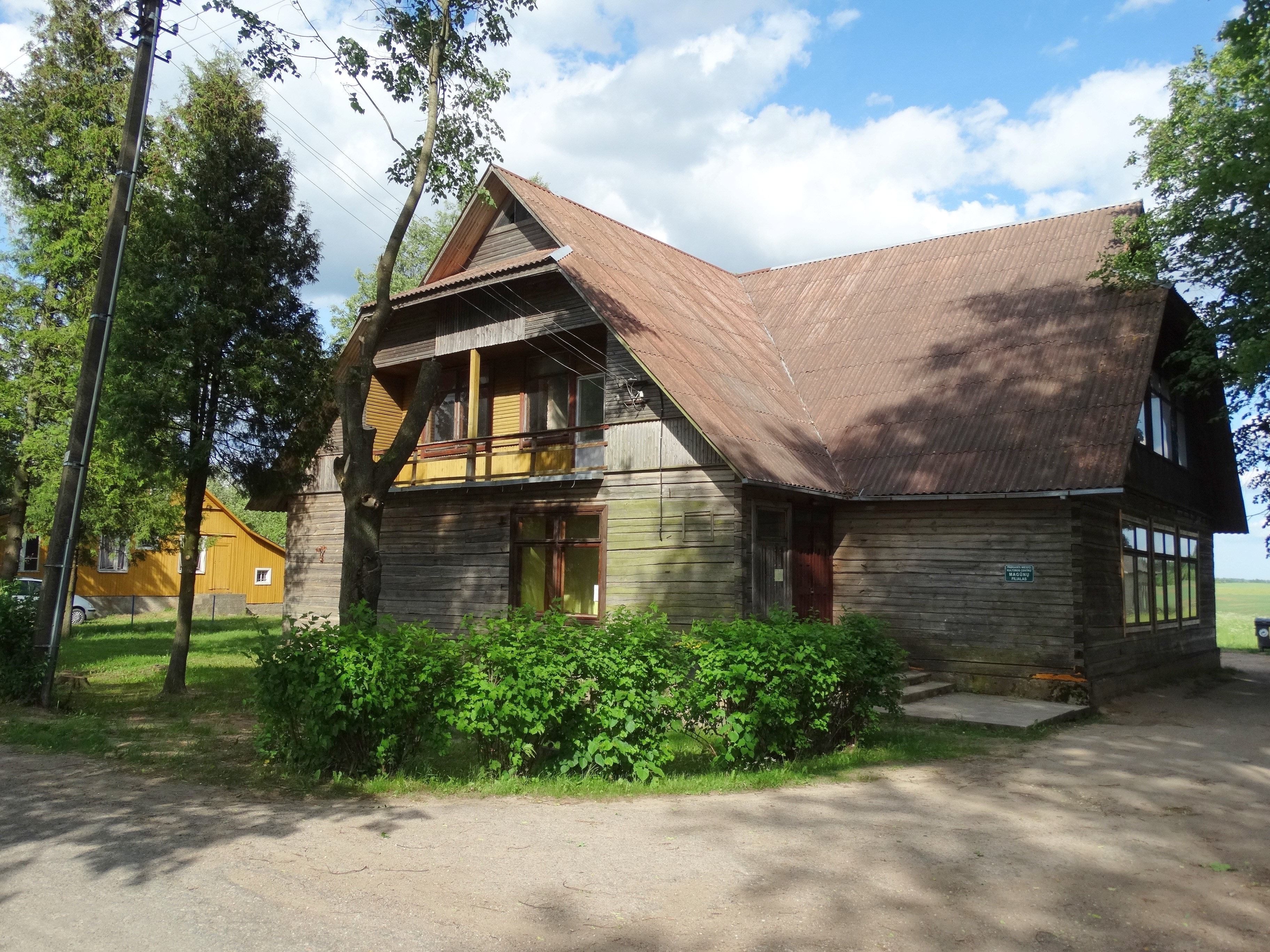 Centre of culture, Magūnai, Švenčionys District, Lithuania